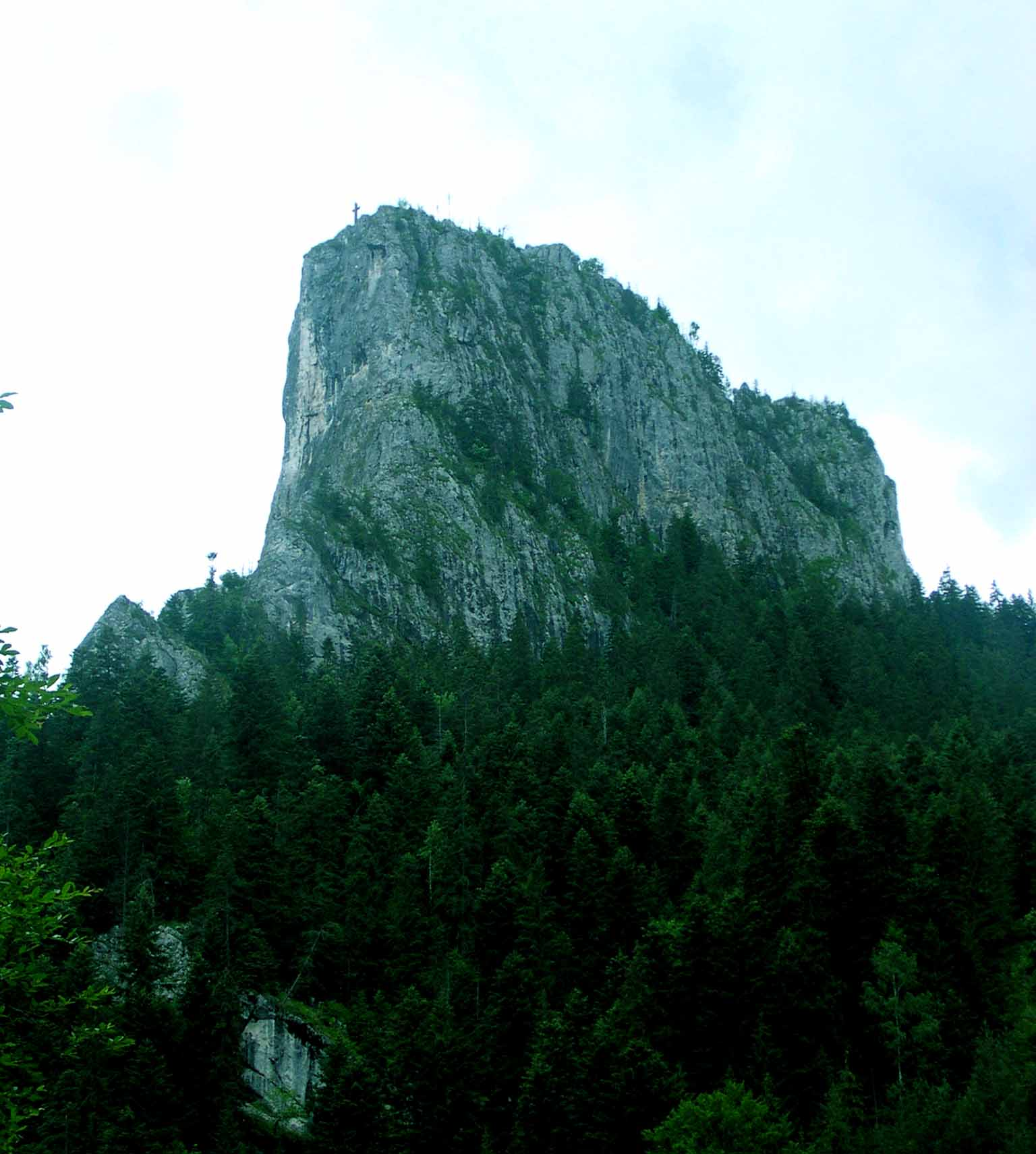 Piatra Altarui peak in Harghita, Romania